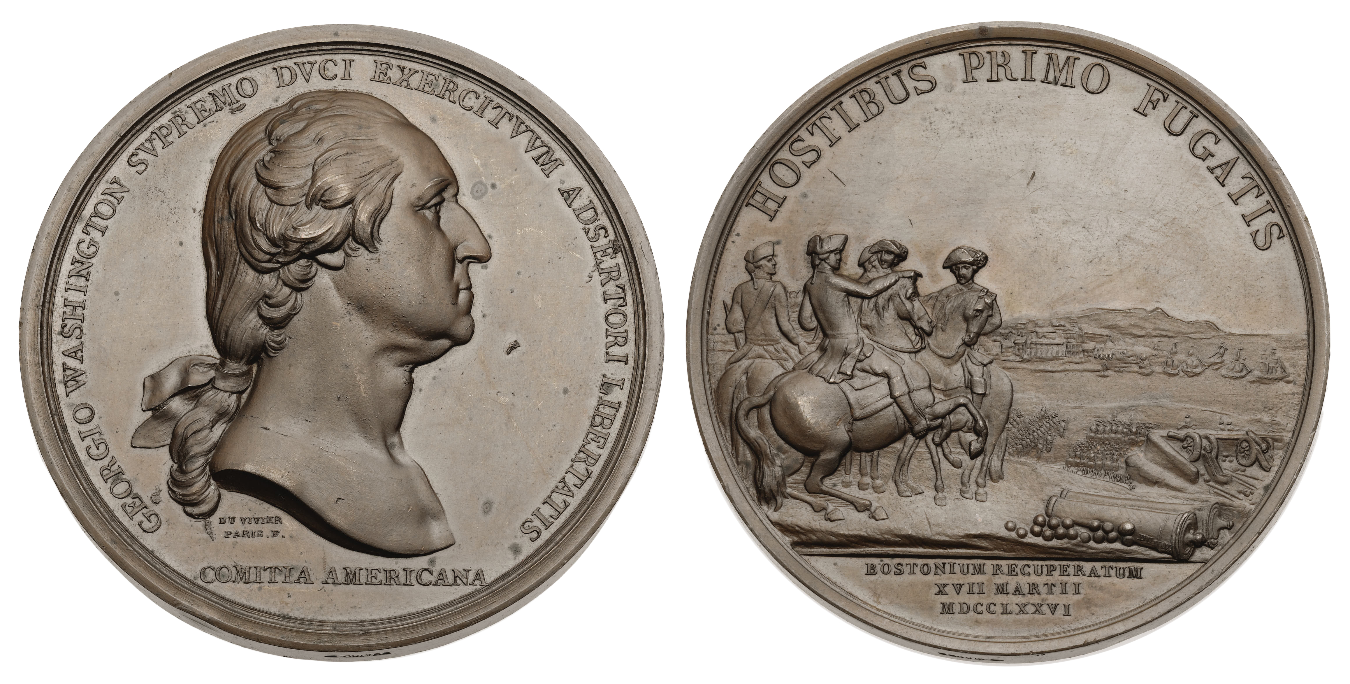 1776 Washington Before Boston Comitia Americana Second Restrike (Baker-48G) (1100-28010)